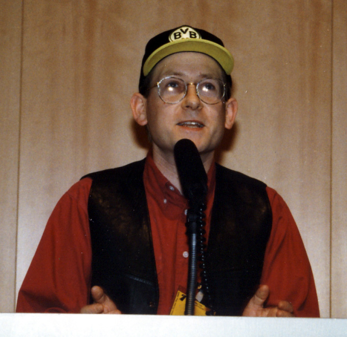 Stephen Baxter. Photo was taken at the Science-Fiction-Tage NRW in Dortmund, Germany